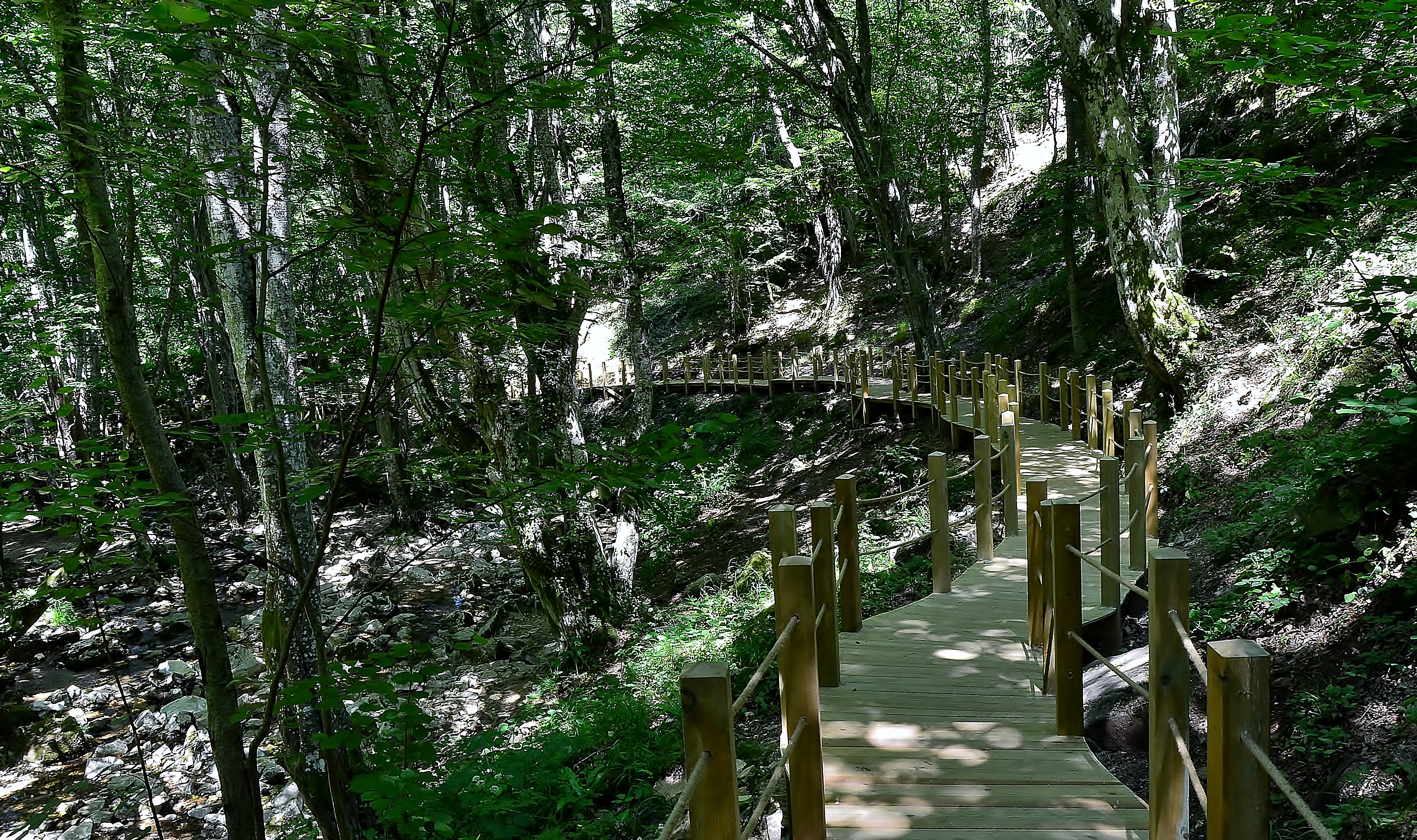 Walkwat to the entrance of Dupnisa Caves